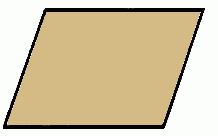 Cell diagram for wallpaper group type p1. Clipped version of Wallpapercellp1.gif.